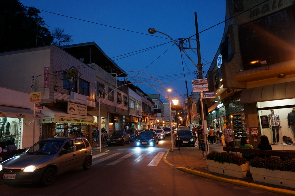 Rua Cel. Pedro Penteado, Serra Negra, SP, Brazil